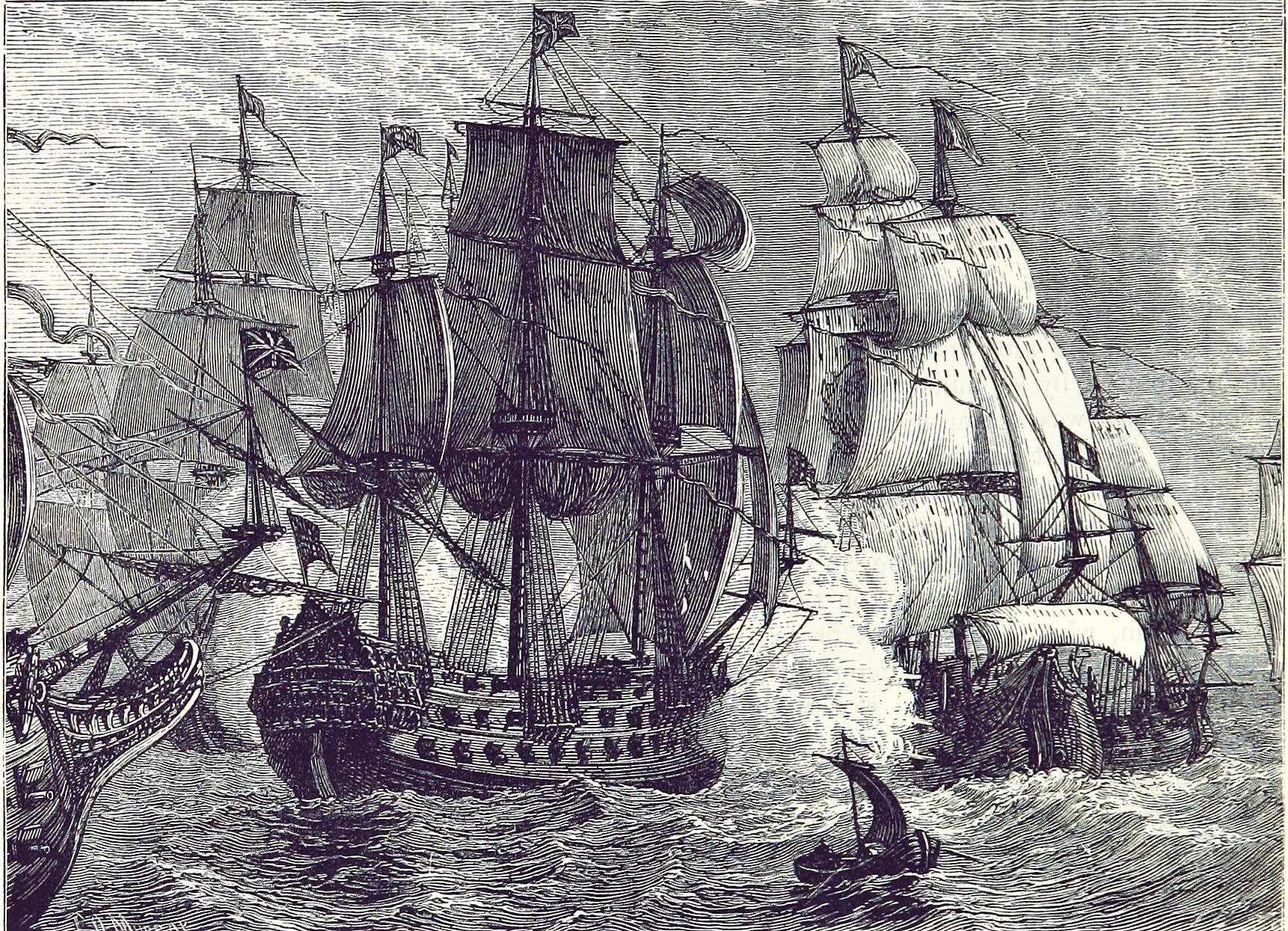 The 19 May 1652 Battle of Goodwin Sands, the first battle of the First Anglo-Dutch War